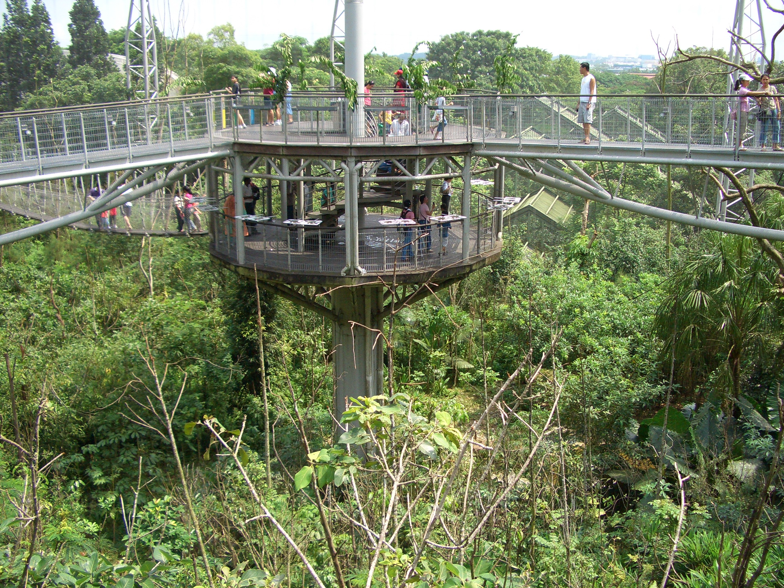 Jurong Bird Park, Singapore.